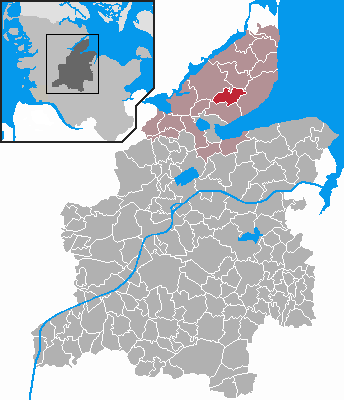 Locator maps of municipalities in Schleswig-Holstein - District Rendsburg-Eckernförde